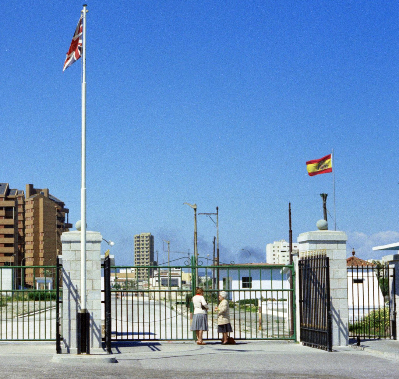 The closed border between Spain and Gibraltar (viewed from the Gibraltar side)